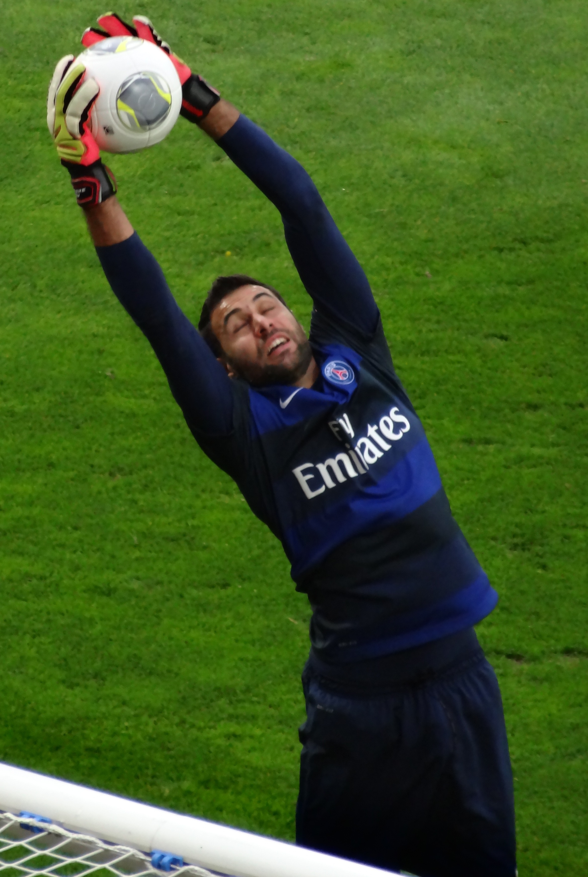 Salvatore Sirigu (PSG)